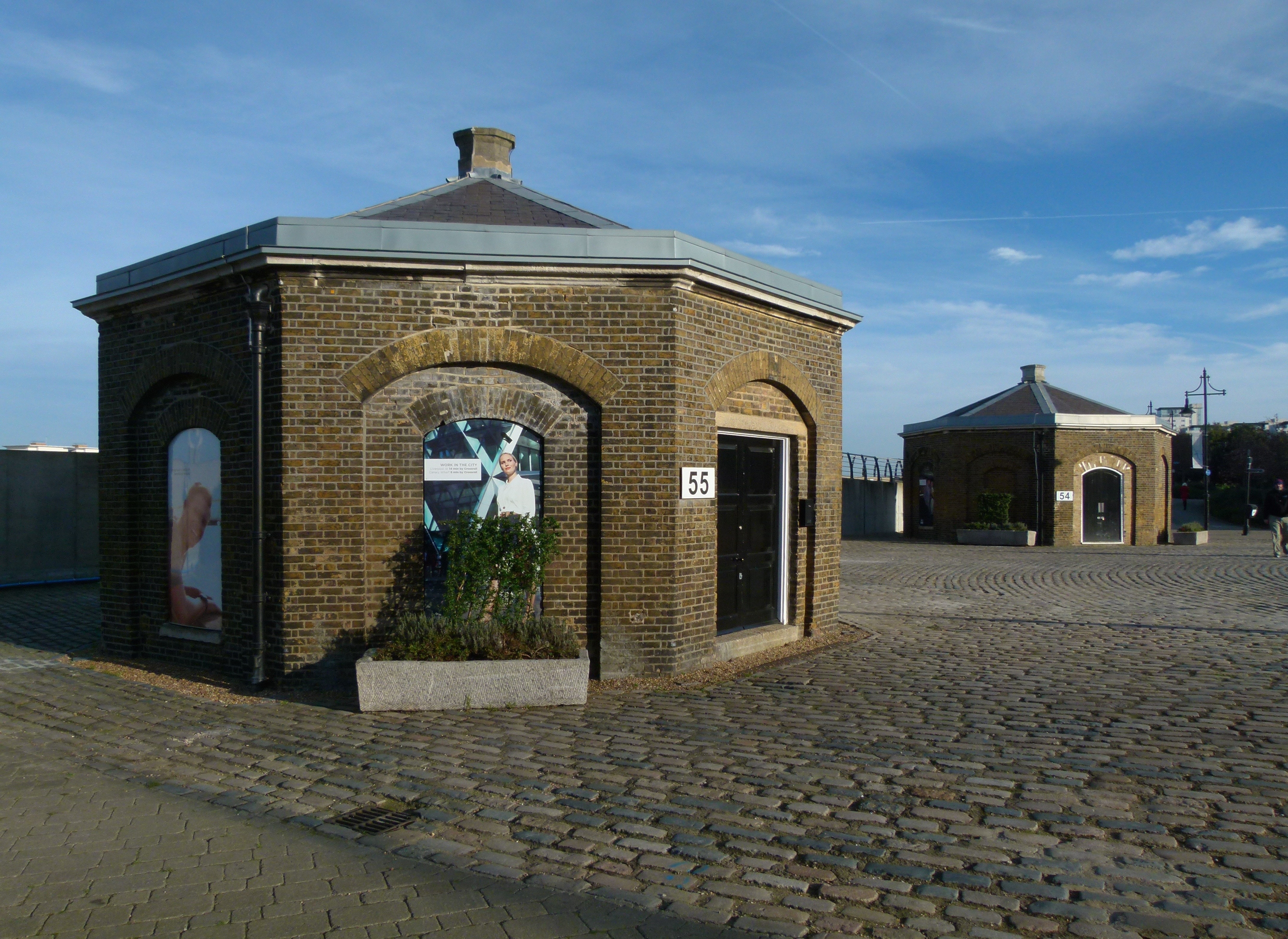 View of Riverside guardhouses at the Royal Arsenal, Woolwich, south east London.